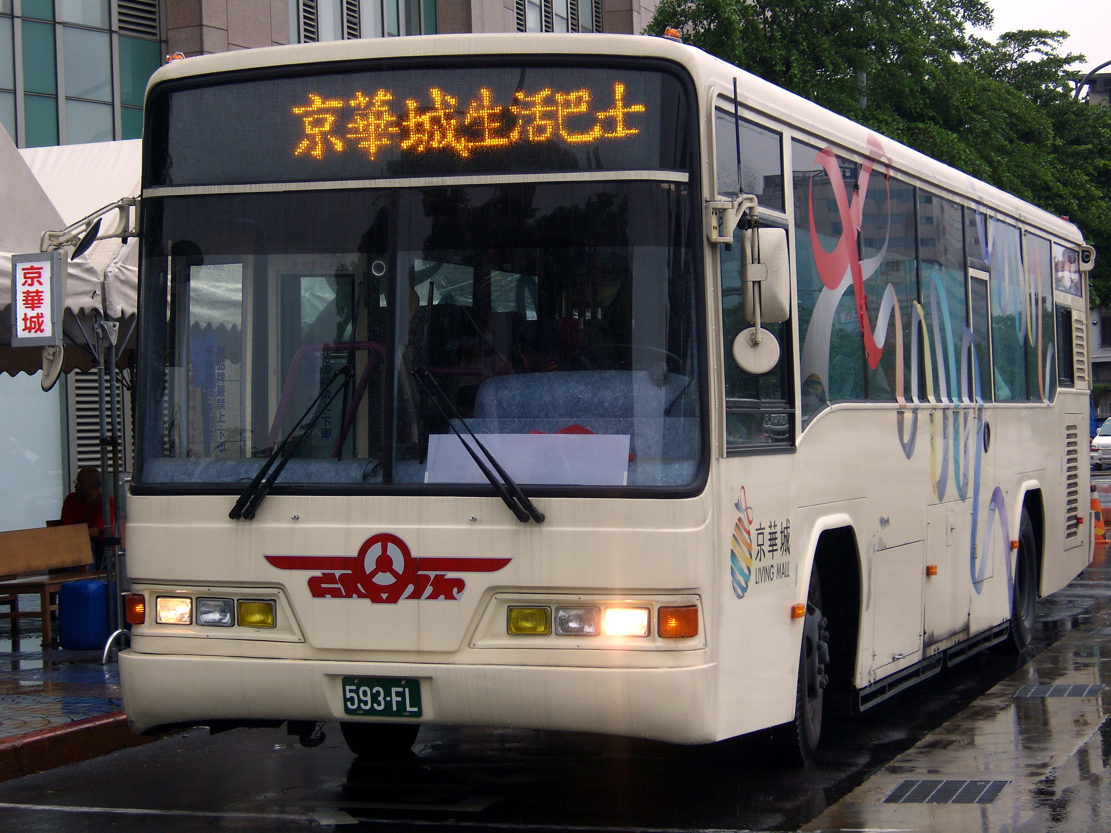 Core Pacific City Living Mall Shuttle Bus by Shin-Shin Bus.